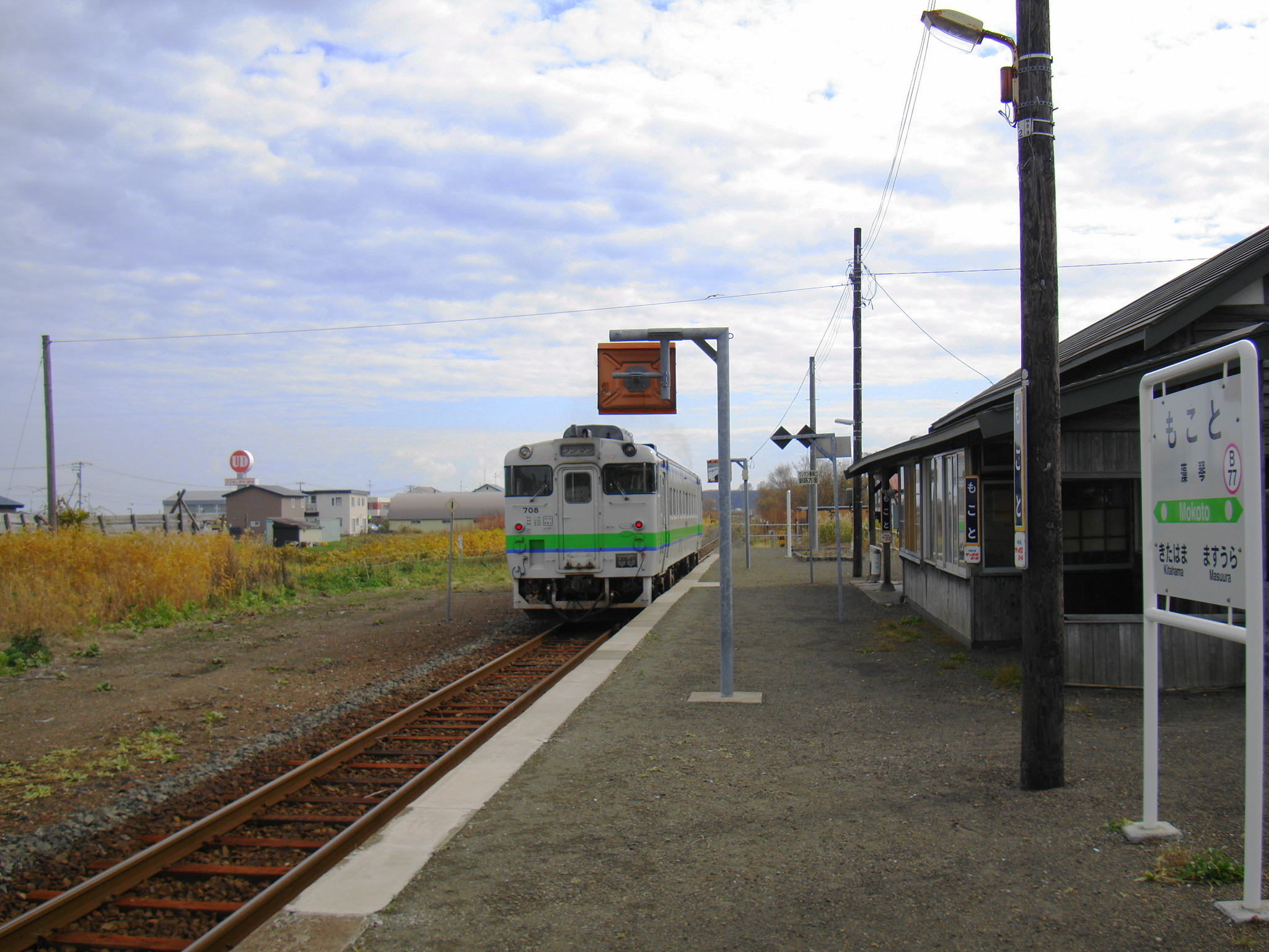 Mokoto Station